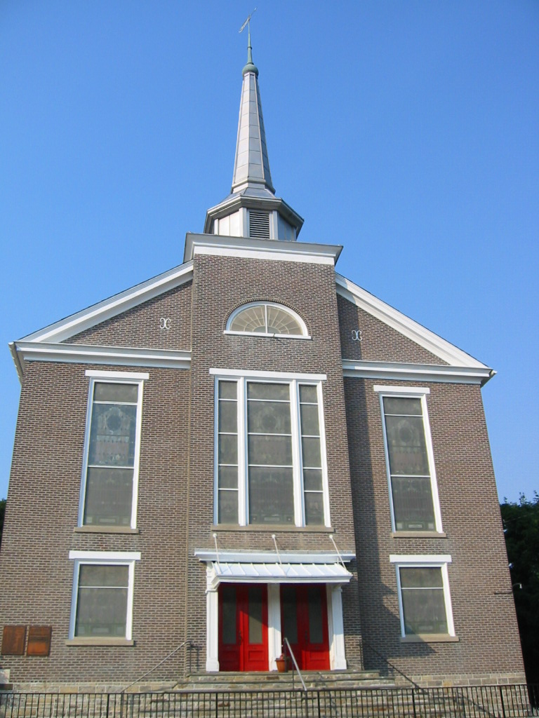 Photograph of Egypt Community Church - Egypt, Lehigh County, Pennsvylania.